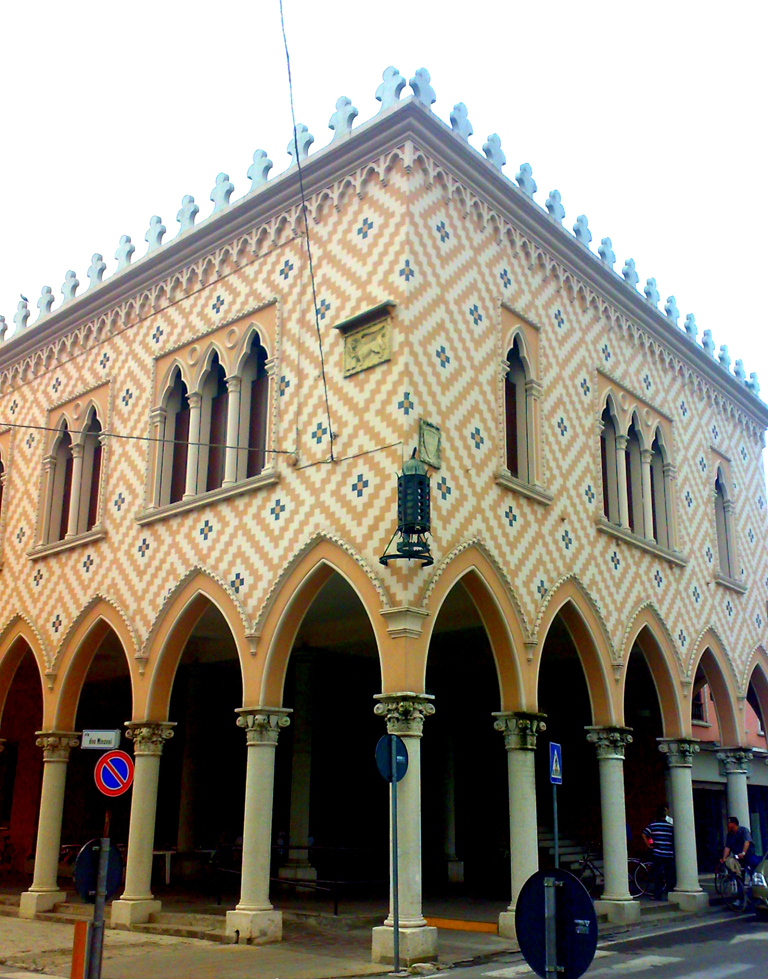 The Mercato coperto palace in Badia Polesine.